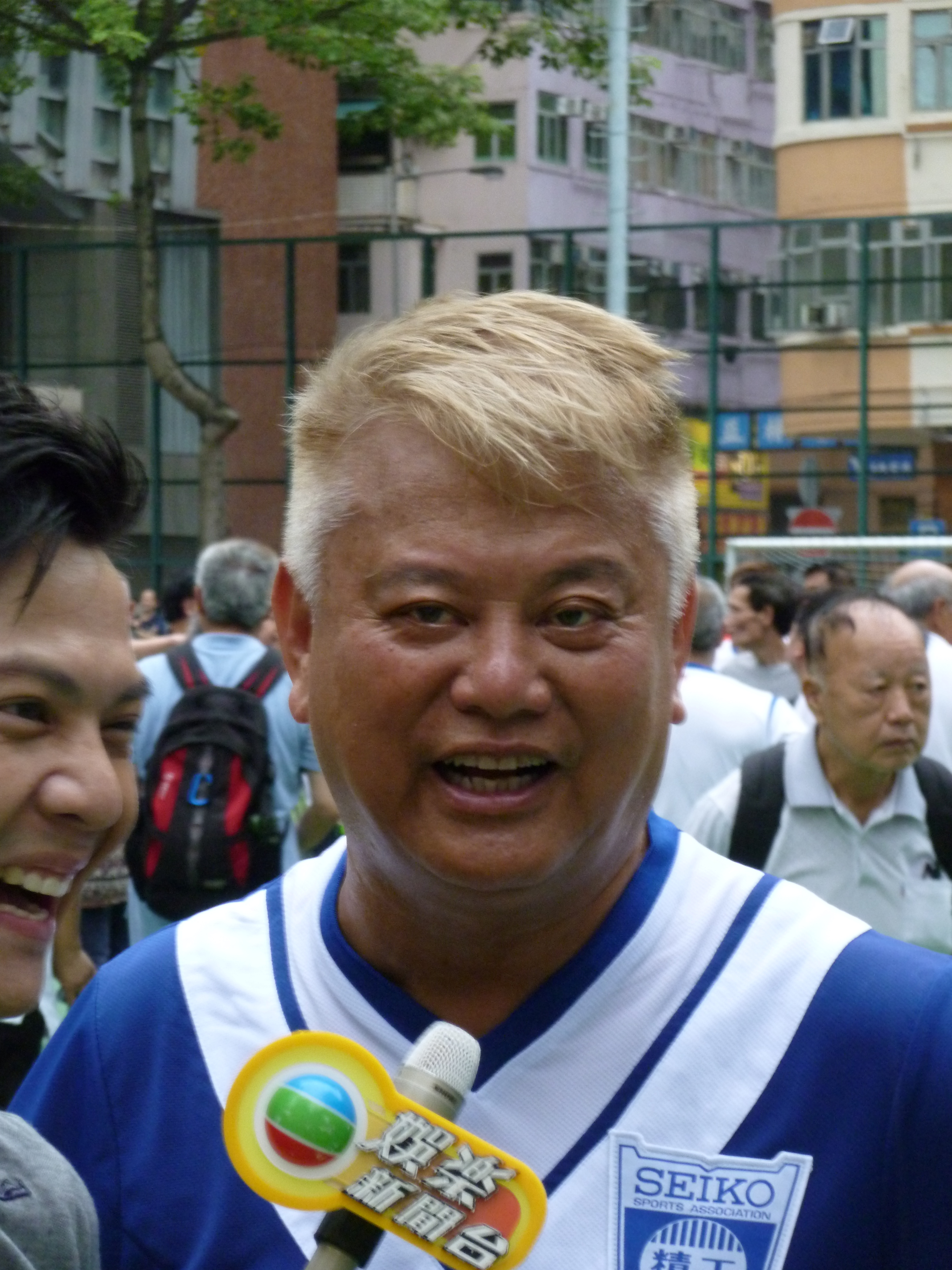 Natalis Chan (16 Aug 2015, memorial matches of Wu Kwok Hung, Macpherson Playground)中文（香港）: 陳百祥 (16 Aug 2015, 胡國雄紀念賽, 麥花臣遊樂場)